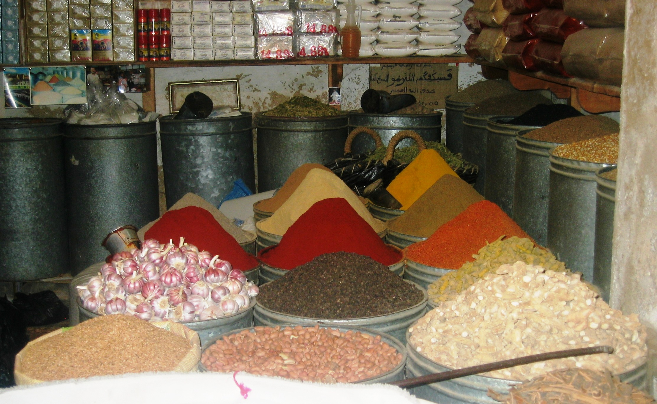 Spices for sale in the Medina in the Moroccan city of Fes